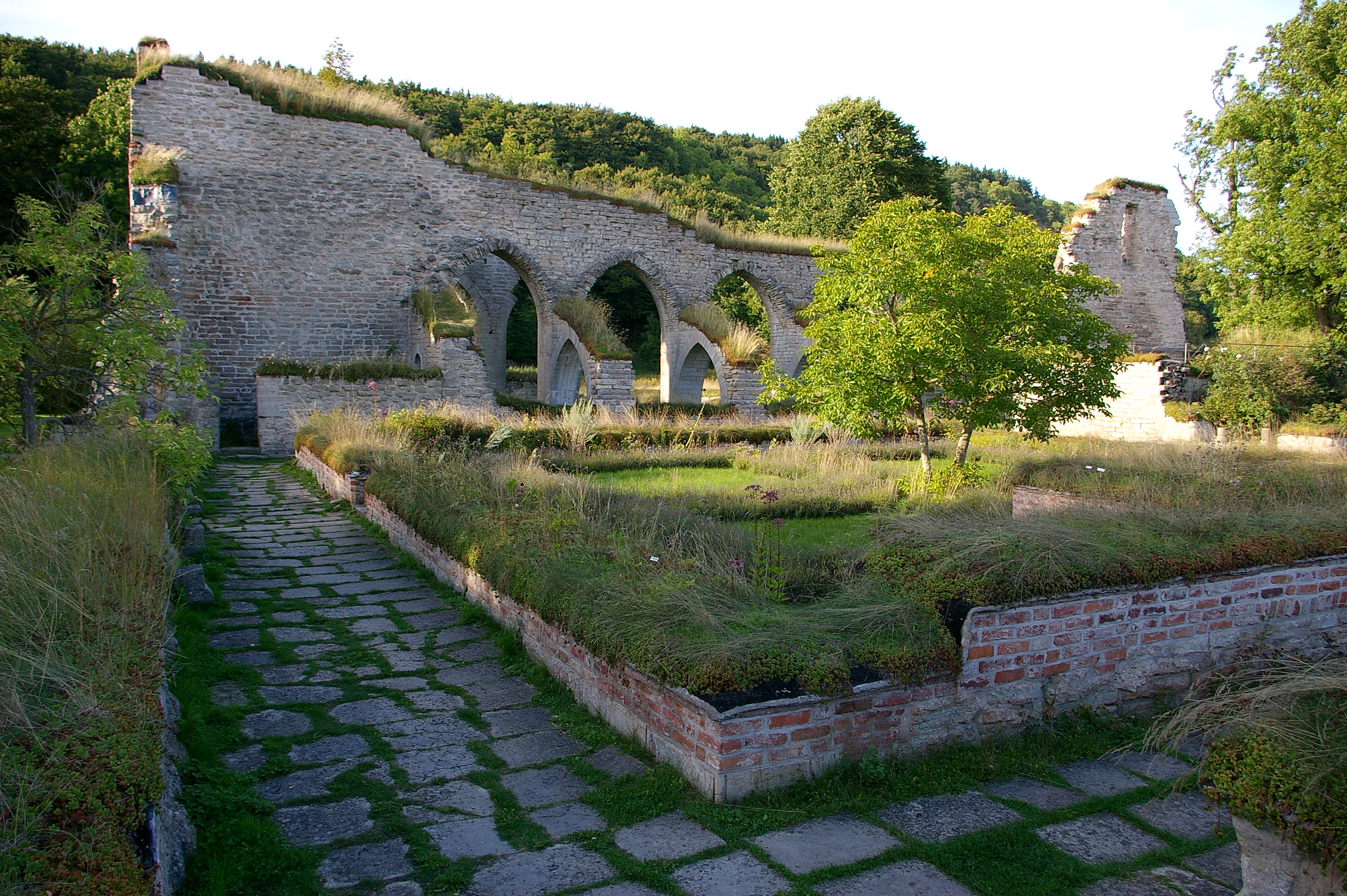 The monastery Alvastra in Sweden.